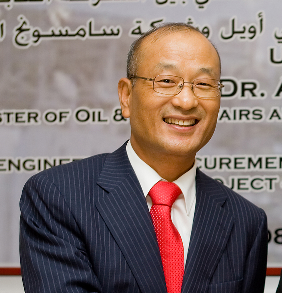 Samsung Engineering President & CEO Yeon-Joo Jung.